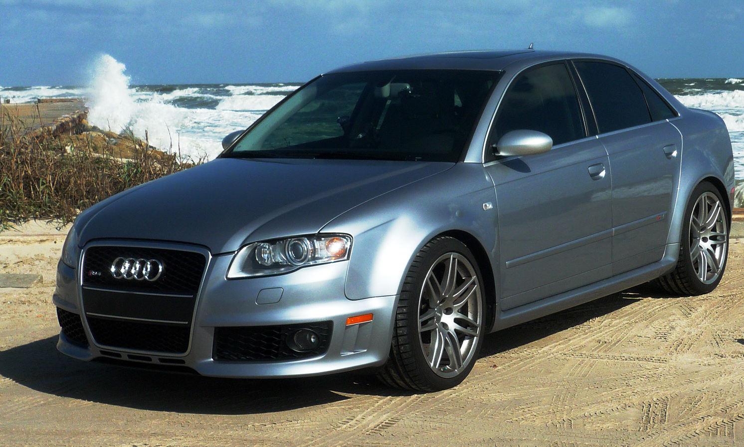 Avus Silver, 19" wheels, non-factory window tint